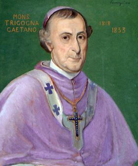 Gaetano Trigona e Parisi, cardinal of the Roman Catholic Church and archbishop of Palermo